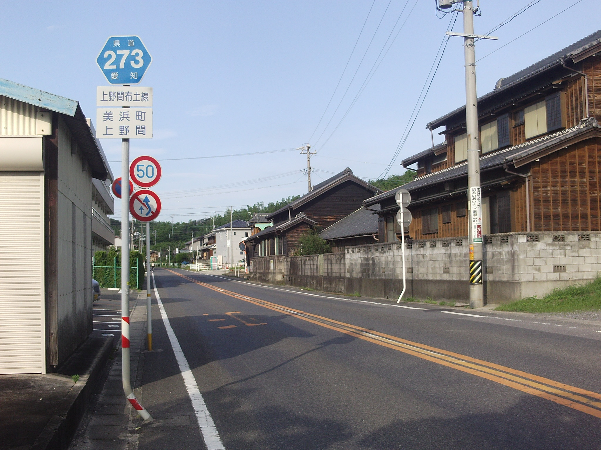 Aichi prefectural road No.273 in Kaminoma, Mihama-cho, Chita-gun, Aichi.